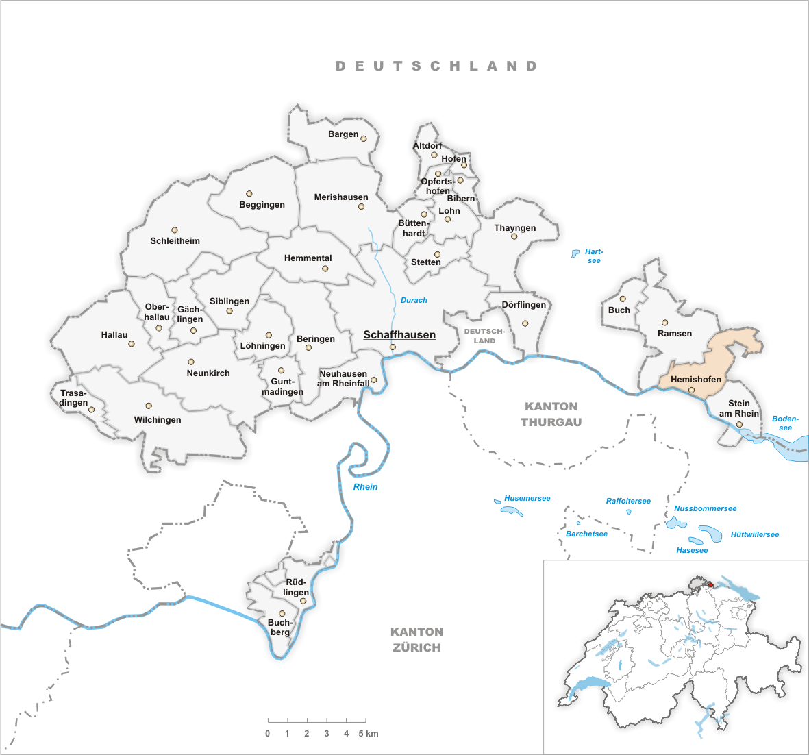 Municipality Hemishofen